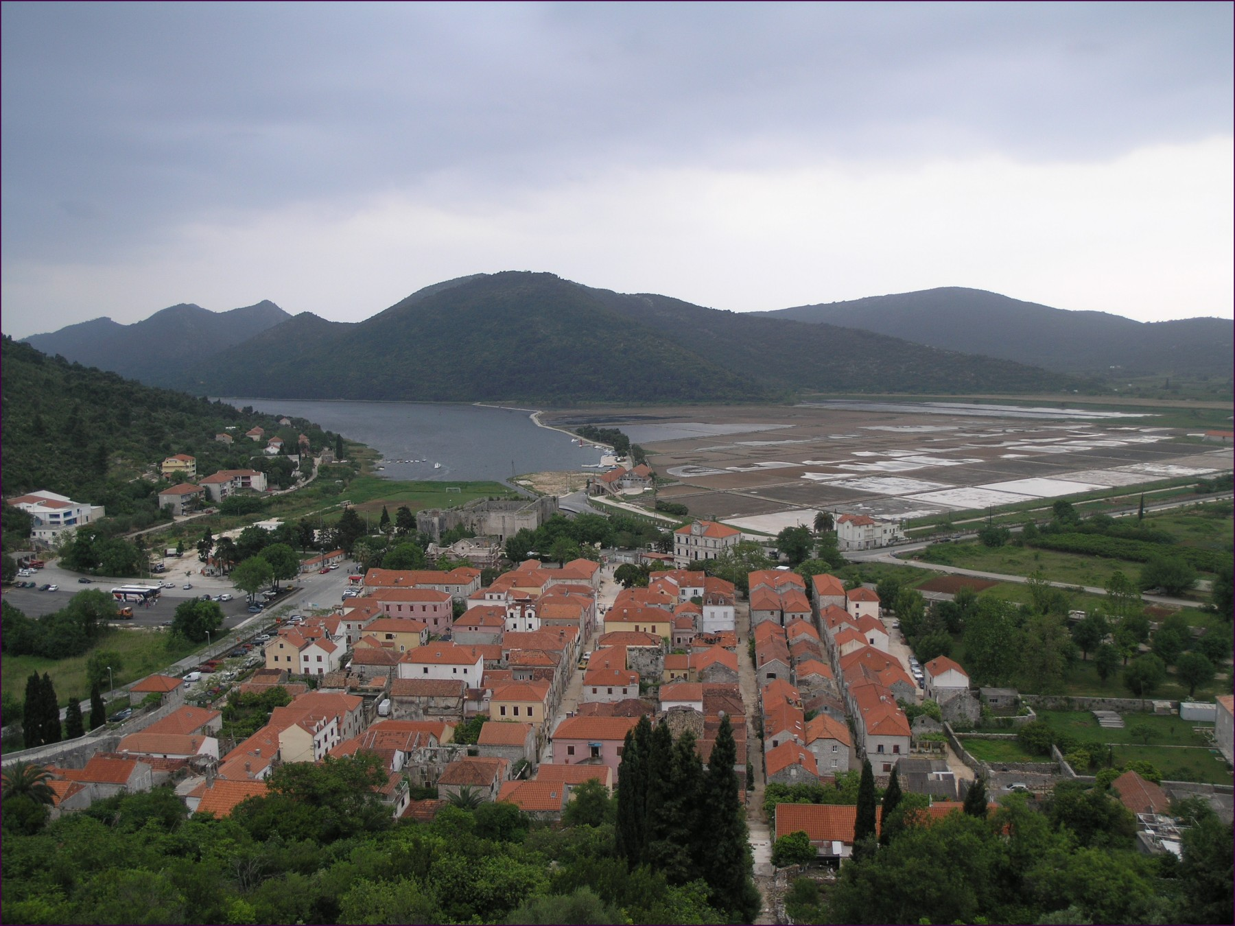 Croatia, Ston